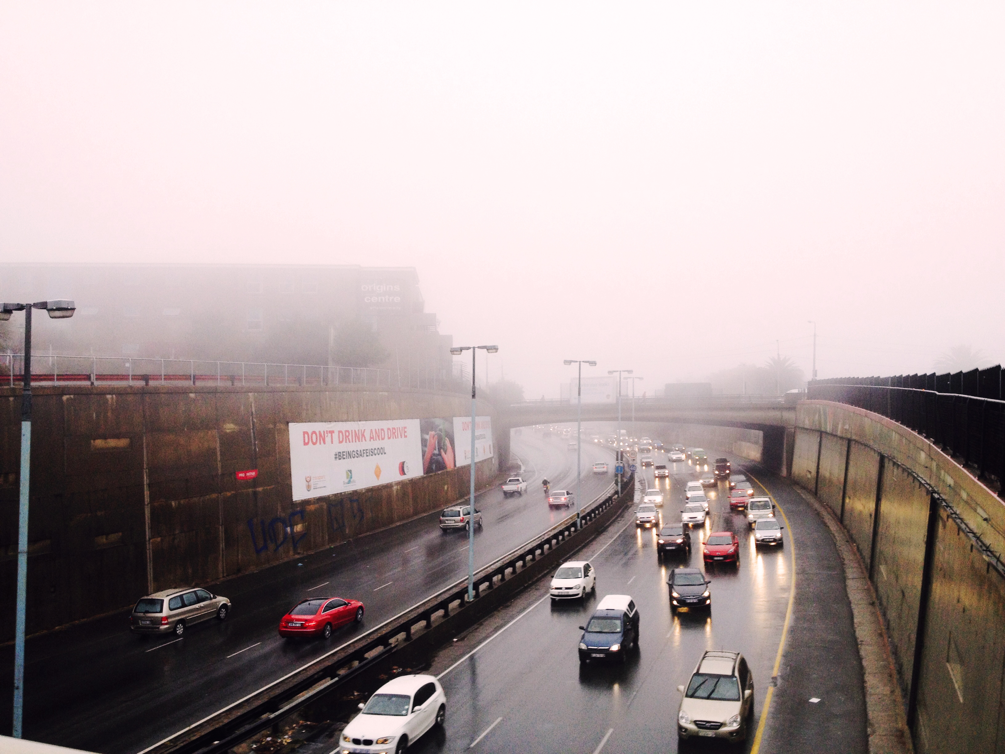 traffic in the midst of the rain and fog This is an image with the theme "Africa on the Move or Transport" from: South Africa